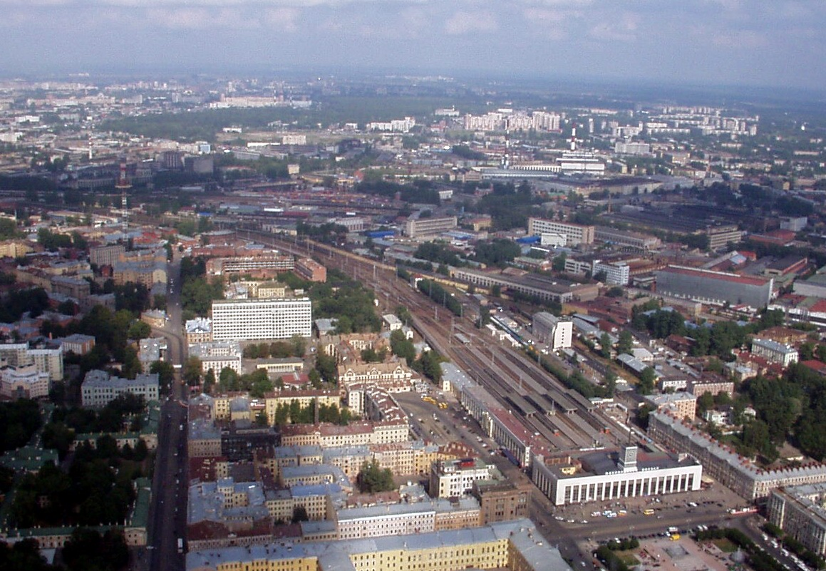 Saint Petersburg (Russia), Finlyandsky Rail Terminal.